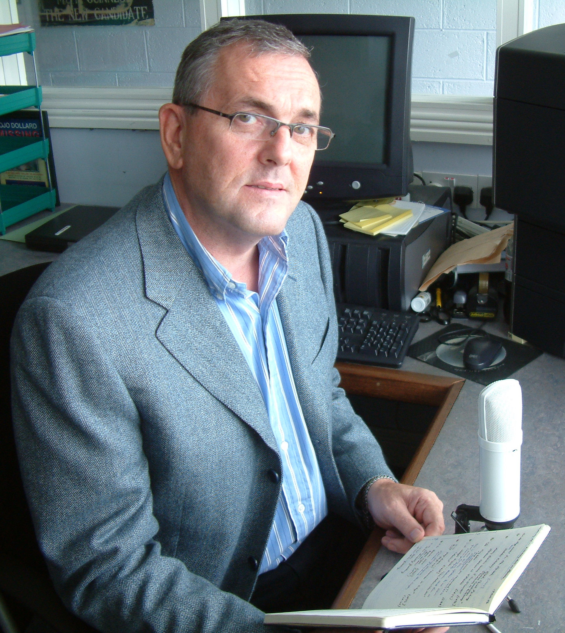 John McGuinness in 2006